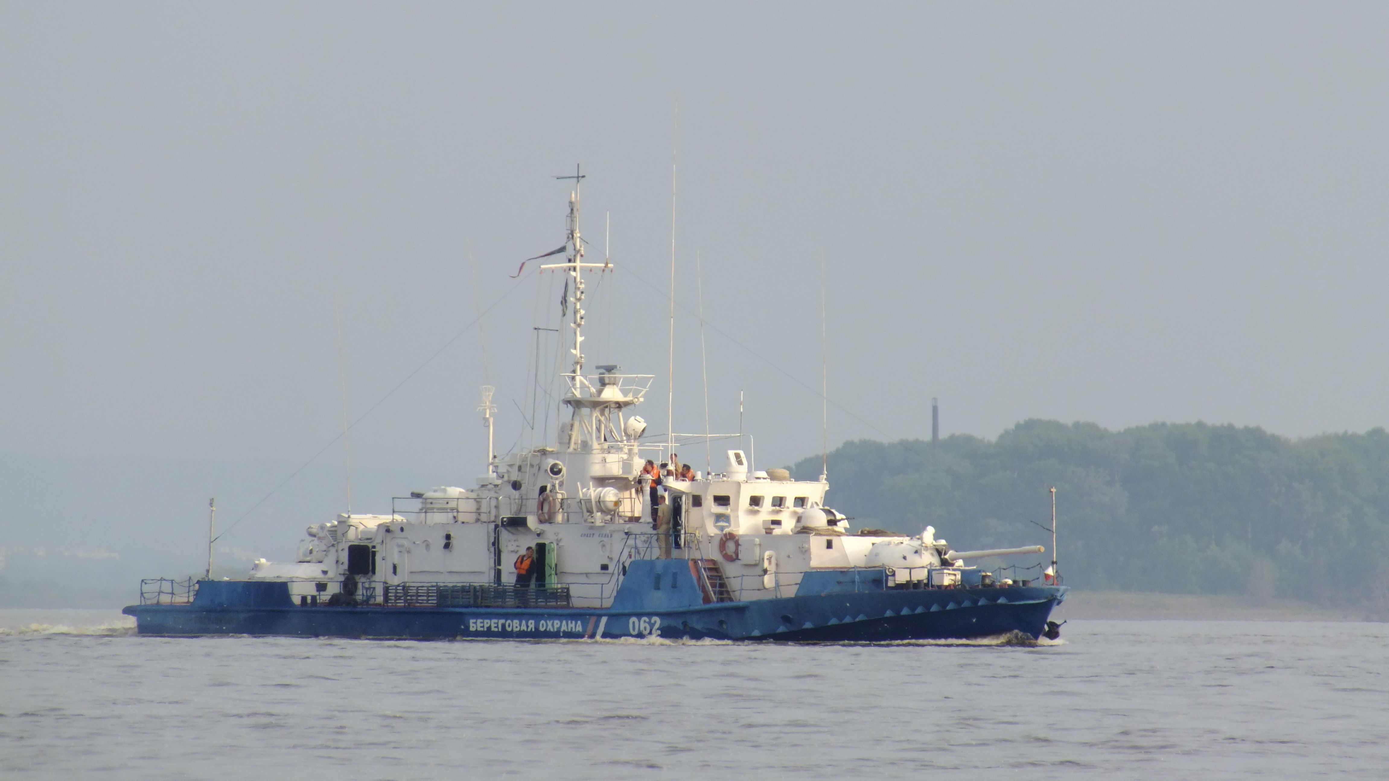 Amur Military Flotilla